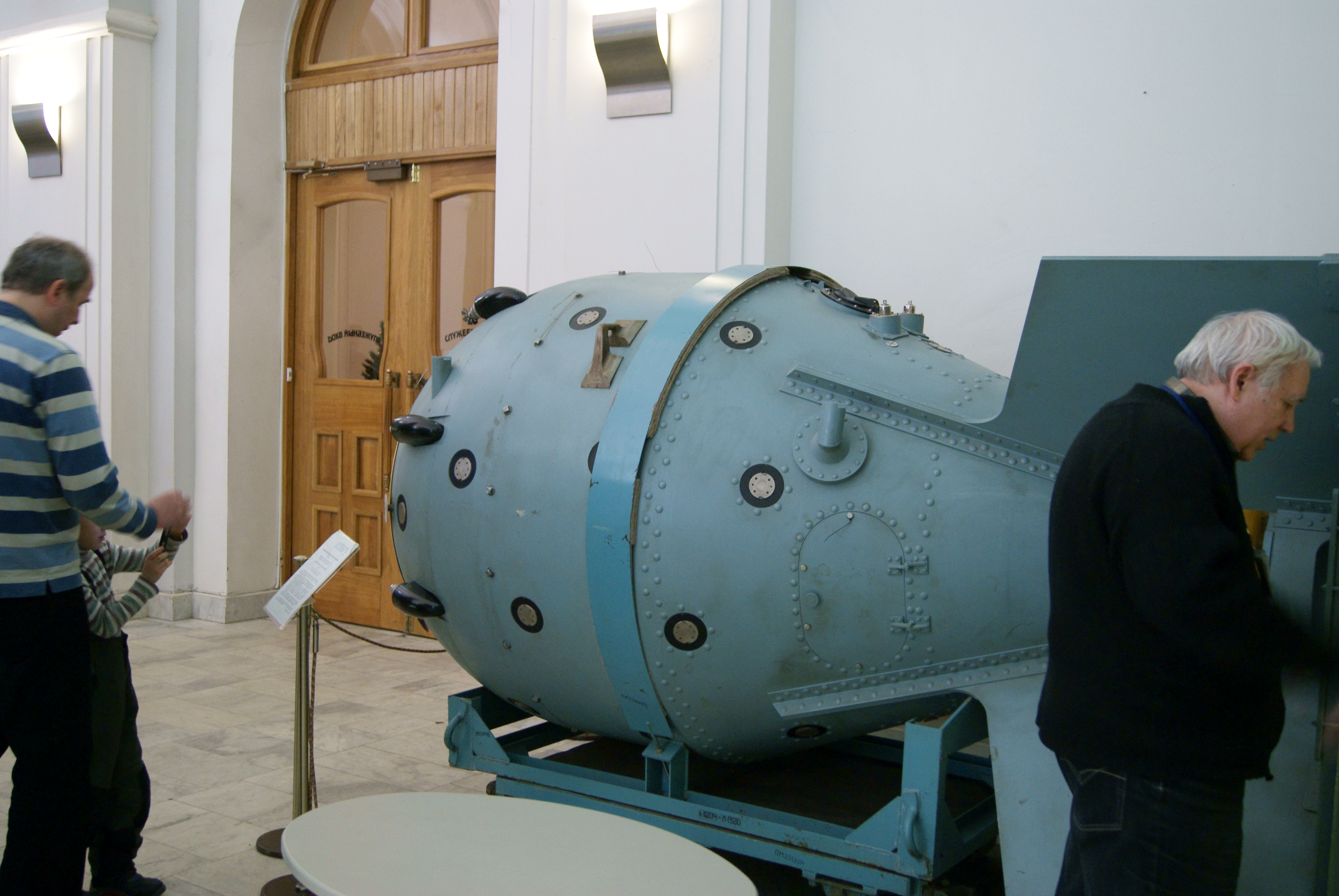 First soviet A-bomb